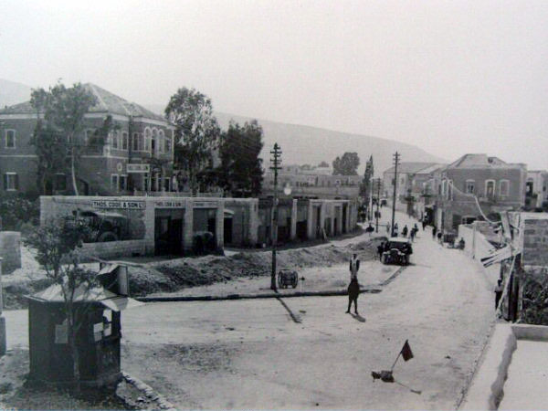 Herzliya Hotels in Haifa, there were three hotels was named "Hotel Herzliya" established in the first half of the 20th century city of Haifa by David Moshe Halevi - Epstein